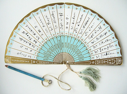 Dance engagements card for 11 January 1887 Published by M W & Co Ltd (Marcus Ward & Co) 184 x 95mm (7¼ x 3¾in). Inside this dance engagements card is a list of all the dances for the evening - valse, polka, lancers and quadrille; opposite each dance is a space to record the name of the partner for that dance. After the event the card was kept as a souvenir of the evening, perhaps finding a place in the lady's scrap album.